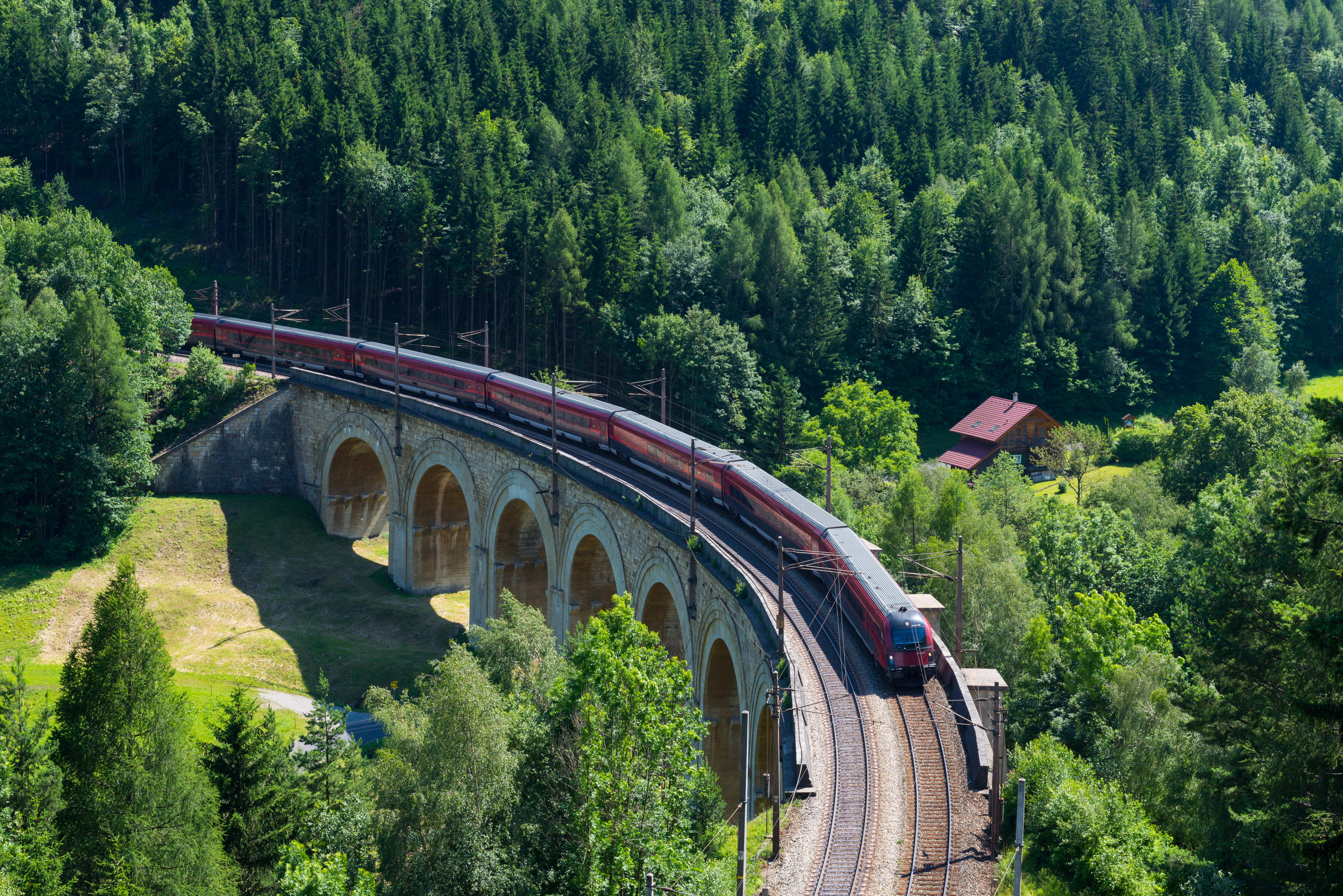 A Railjet on the Fleischmann-Viaduct, heading towards Vienna.